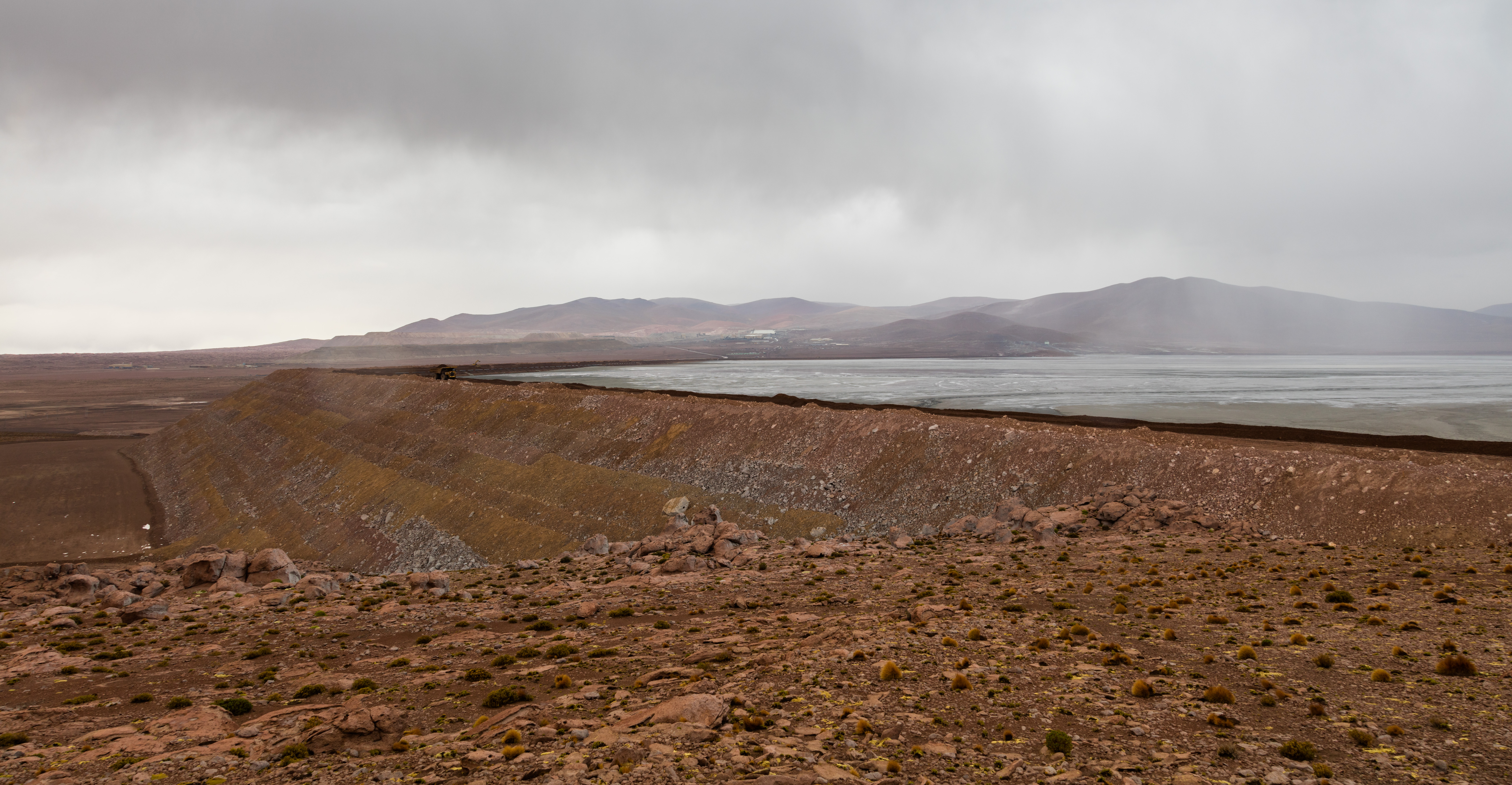 Collahuasi Mine, Tarapacá Region, Chile